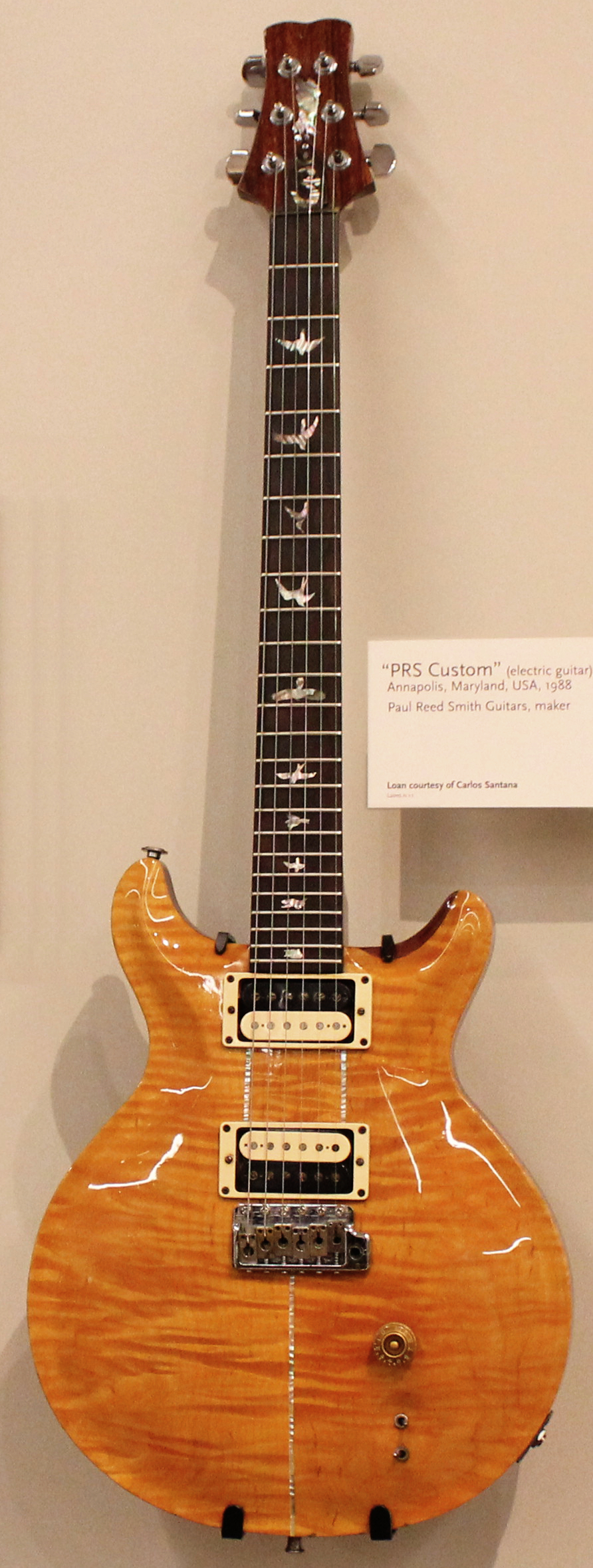 PRS Custom (1988) Santana guitar, MIM PHX